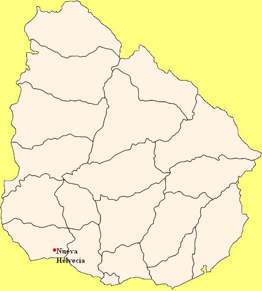 Location of Nueva Helvecia in Uruguay